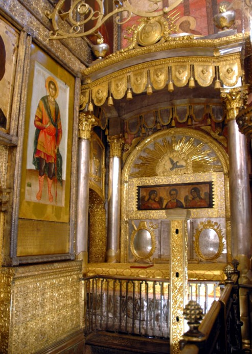 Grave of Philip II, Metropolitan of Moscow, Uspensky cathedral, Moscow.